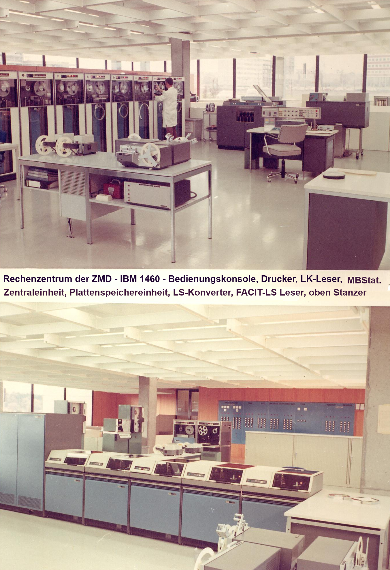 The IT Data Center of the Zentralstelle für maschinelle Dokumentation (ZMD) in Frankfurt Main - Niederrad 1970